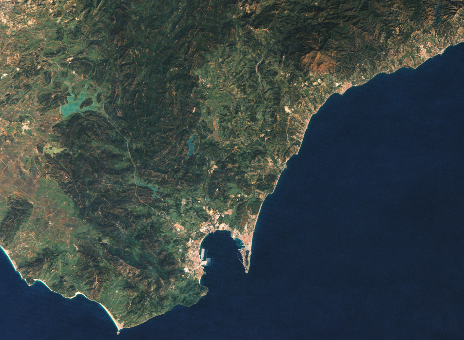 Gibraltar and Algeciras seen in SLC-failure-corrected (but not fully postprocessed) Landsat 7 data. You can read more about our Cloudless Atlas project here.